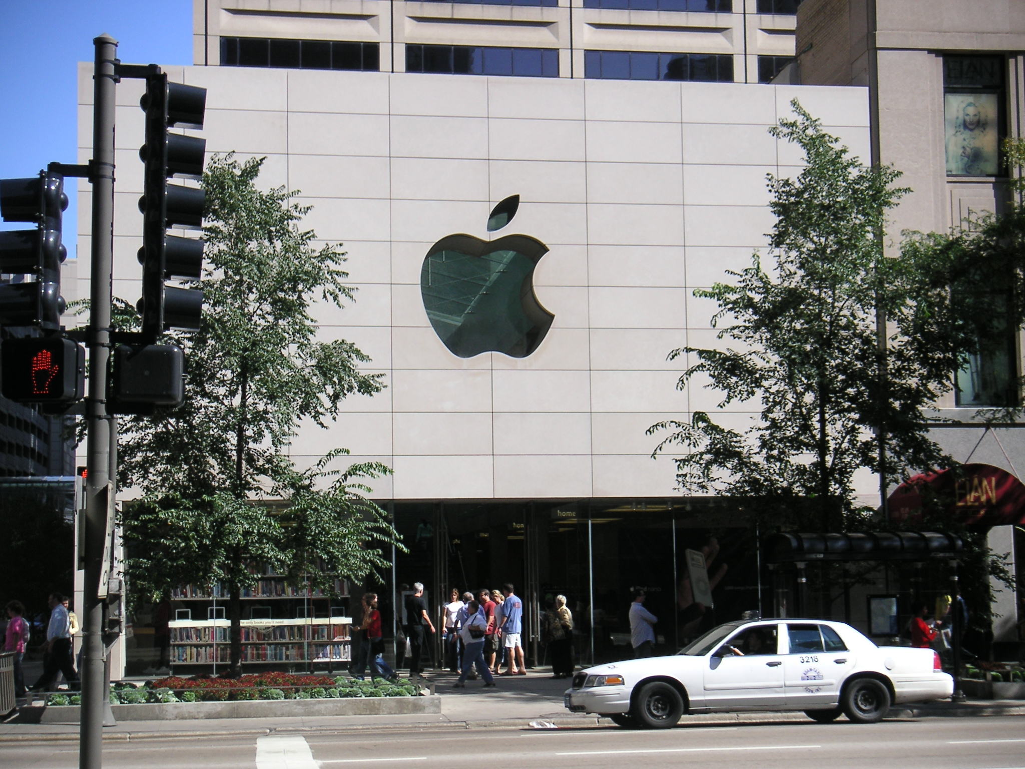 Apple Store on Michigan Avenue (Chicago)